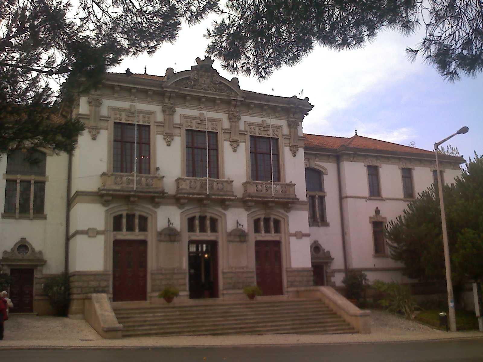 Leiria city hall